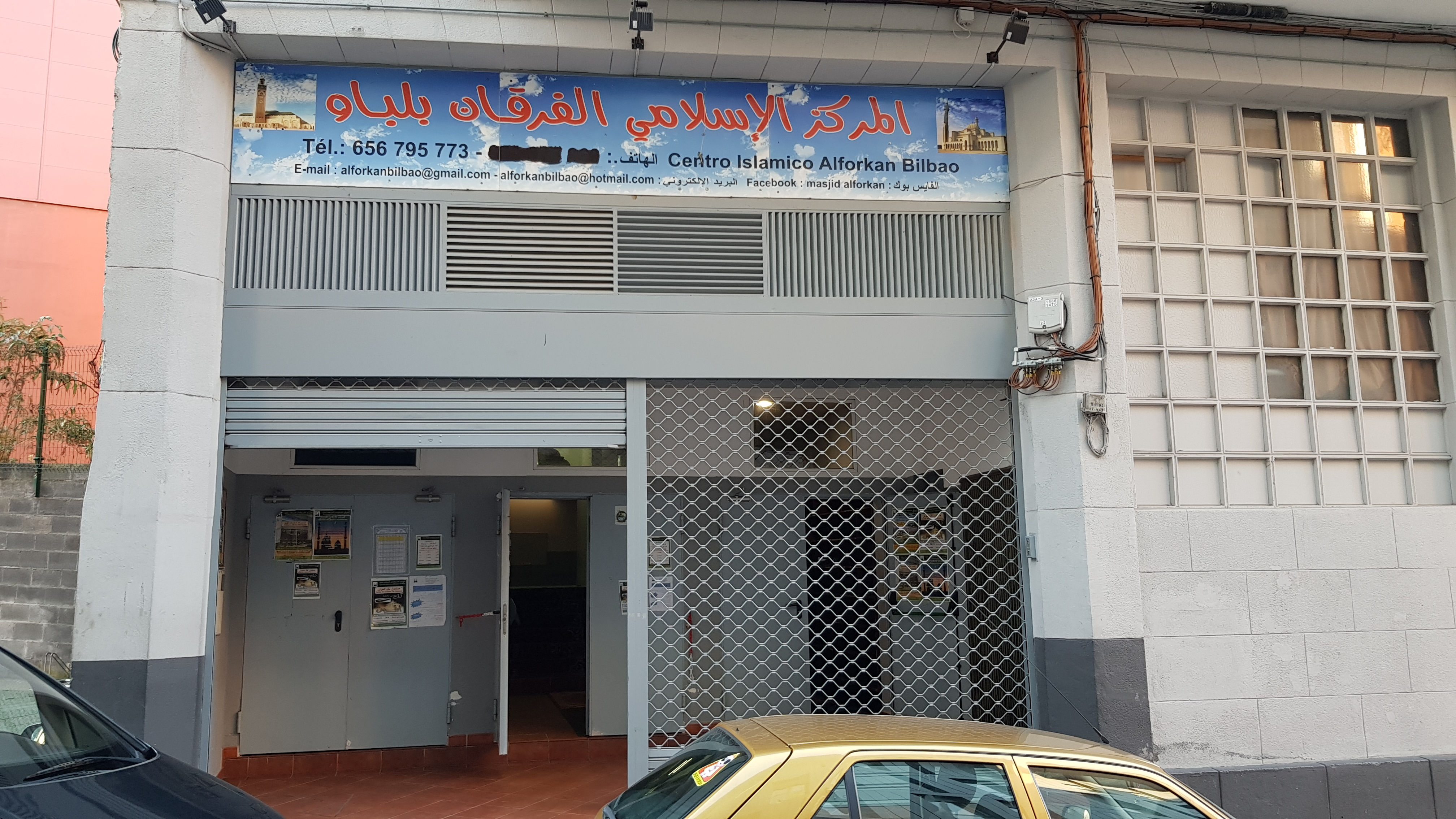 Alforkan Islamic Center in Bilbao